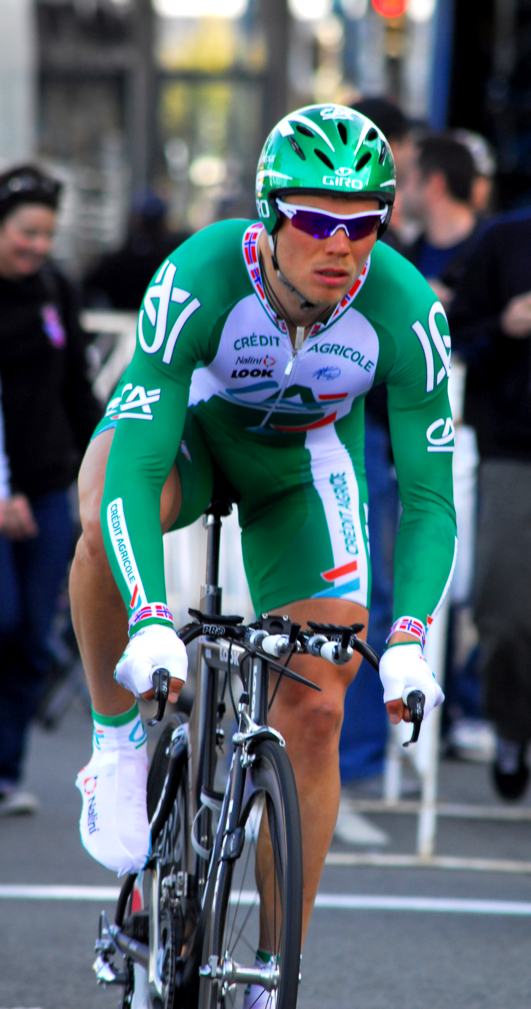 Thor Hushovd, professional road bicycle racer.